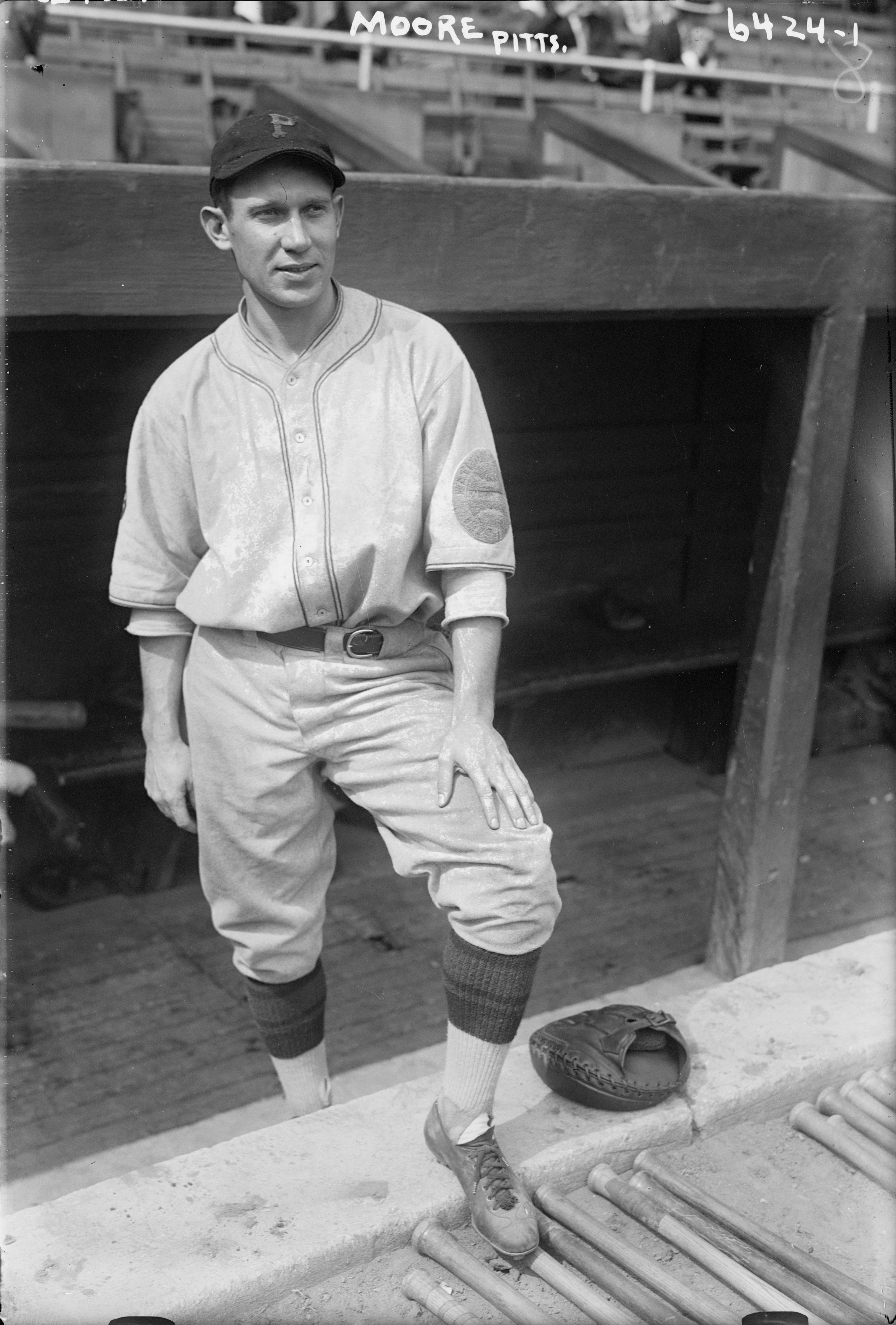 Major League Baseball player Eddie Moore of the Pittsburgh Pirates.